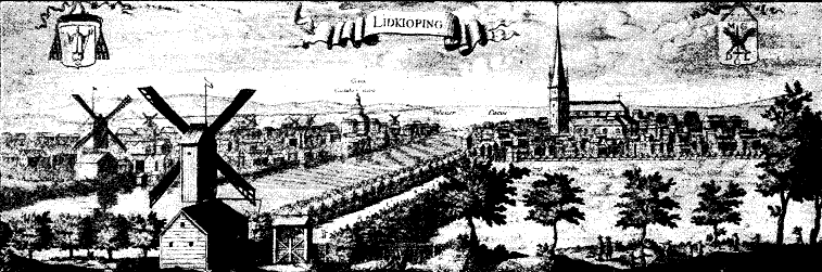 Lidköping, Swedish city, Date: cirka 1700 From Suecia antiqua et Hodierna.